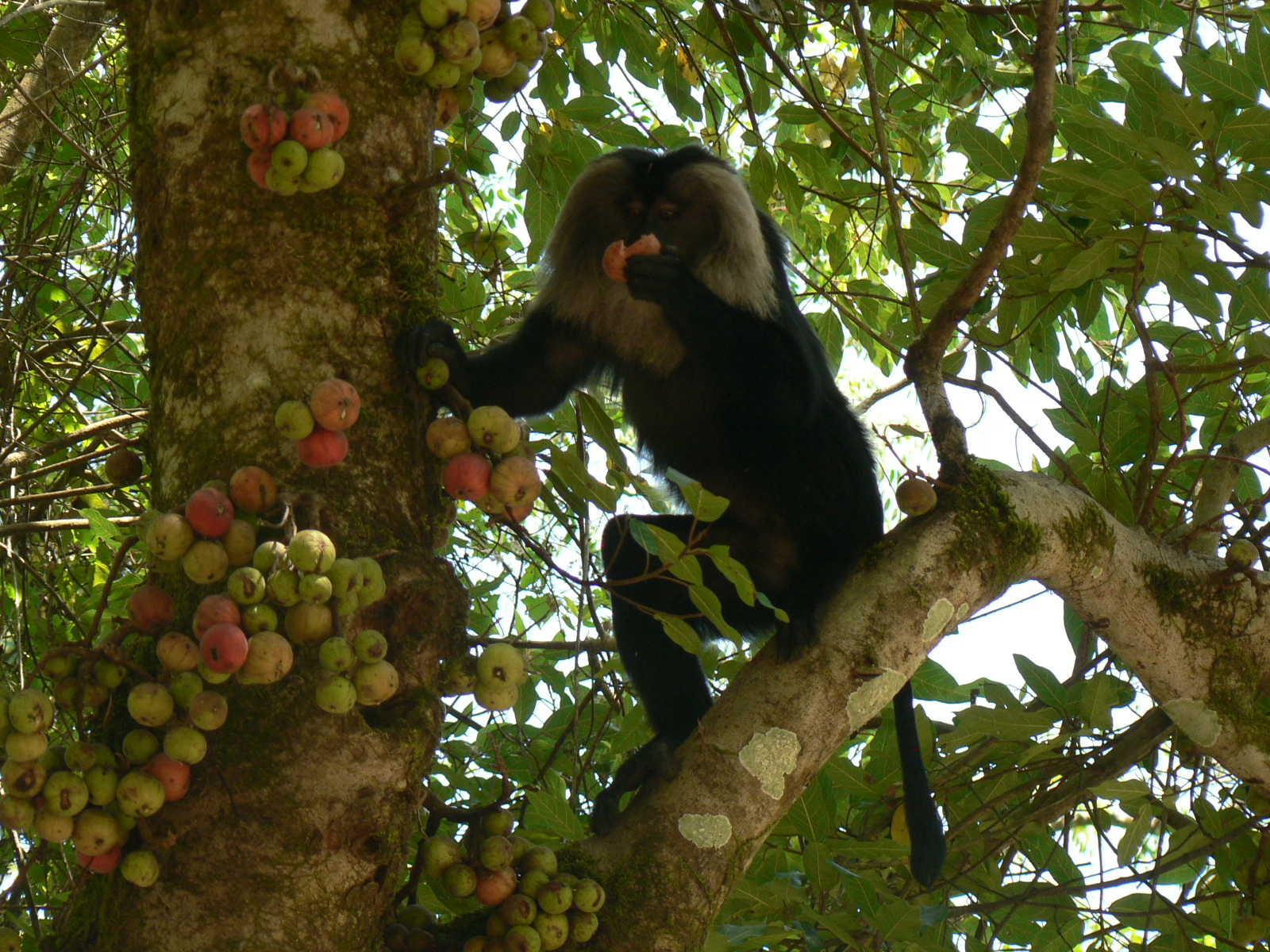 Lion-tailed macaque eating Ficus racemosa fruits